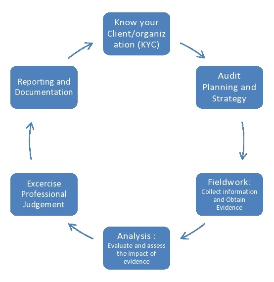 A regular Audit Cycle- Stages of an audit